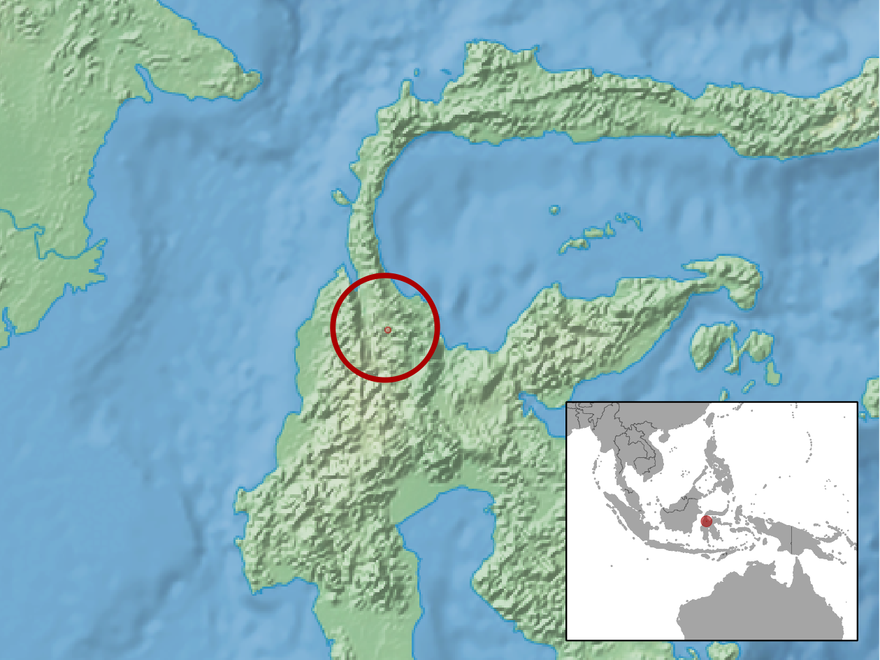 geographic distribution of Tateomys macrocercus